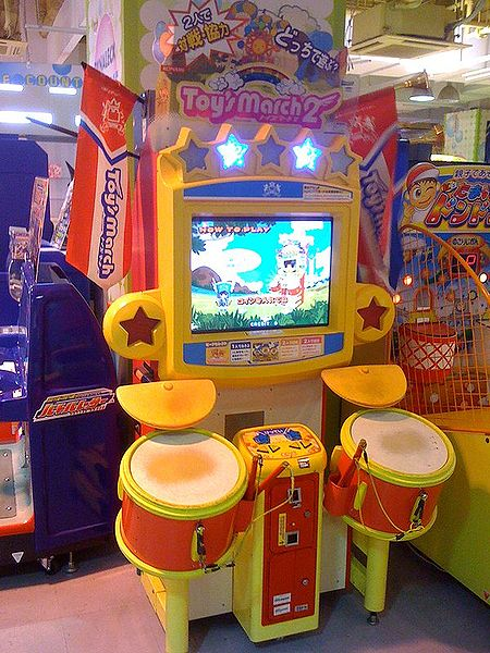 "Toy's March 2" cabinet